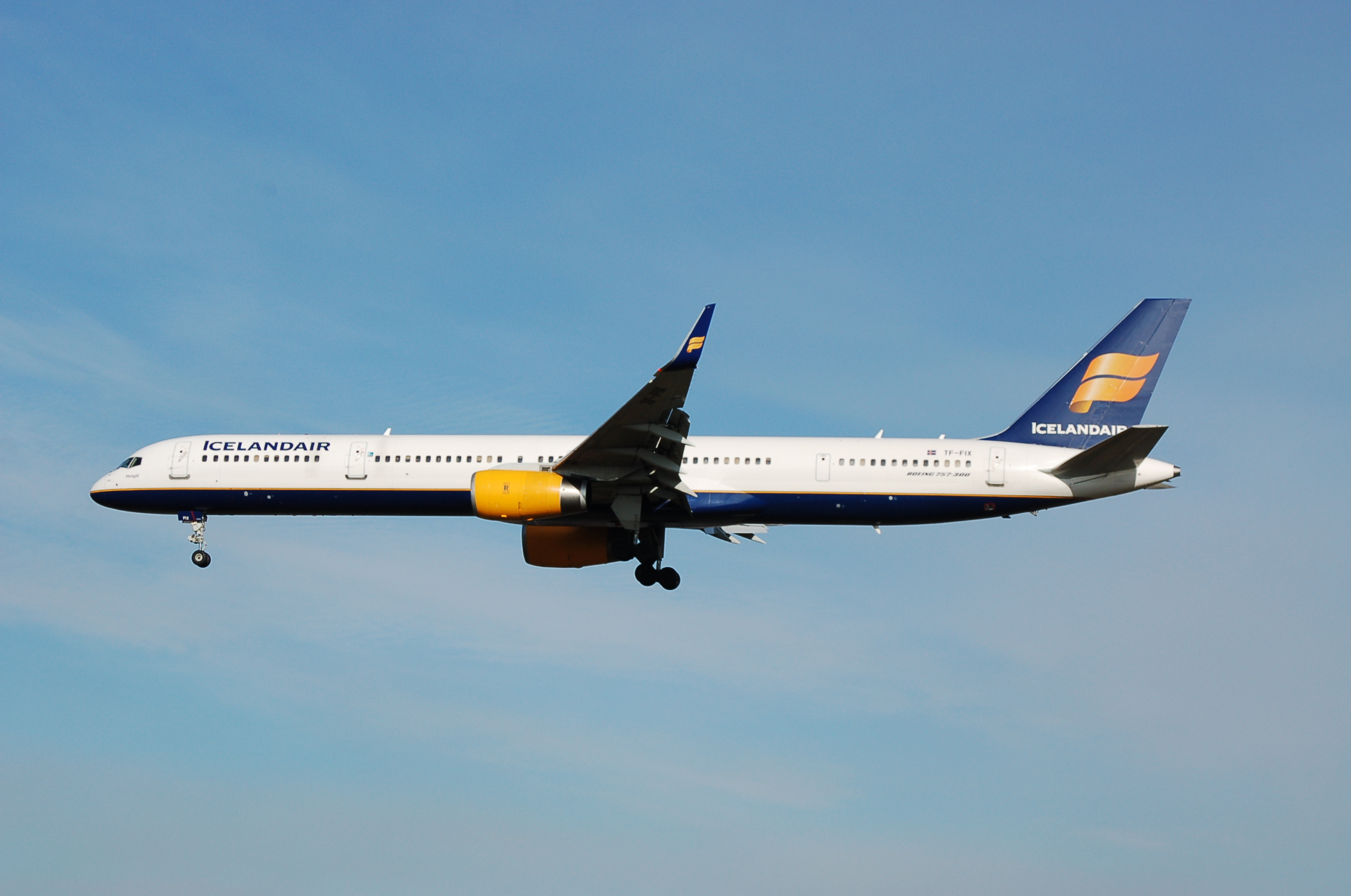 Boeing 757/3 of Icelandair on finals to rwy 27L at Heathrow-LHR,08/02/13.